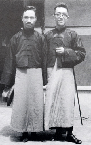 Two opposite friends (titled by Hu Shih)[1]: Hu Hsen Hsu (or Hsen Hsu Hu, a Chinese botanist; previously regarded as Chen Duxiu[1]) and Hu Shih